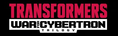 Transformers: War for Cybertron Trilogy logo.